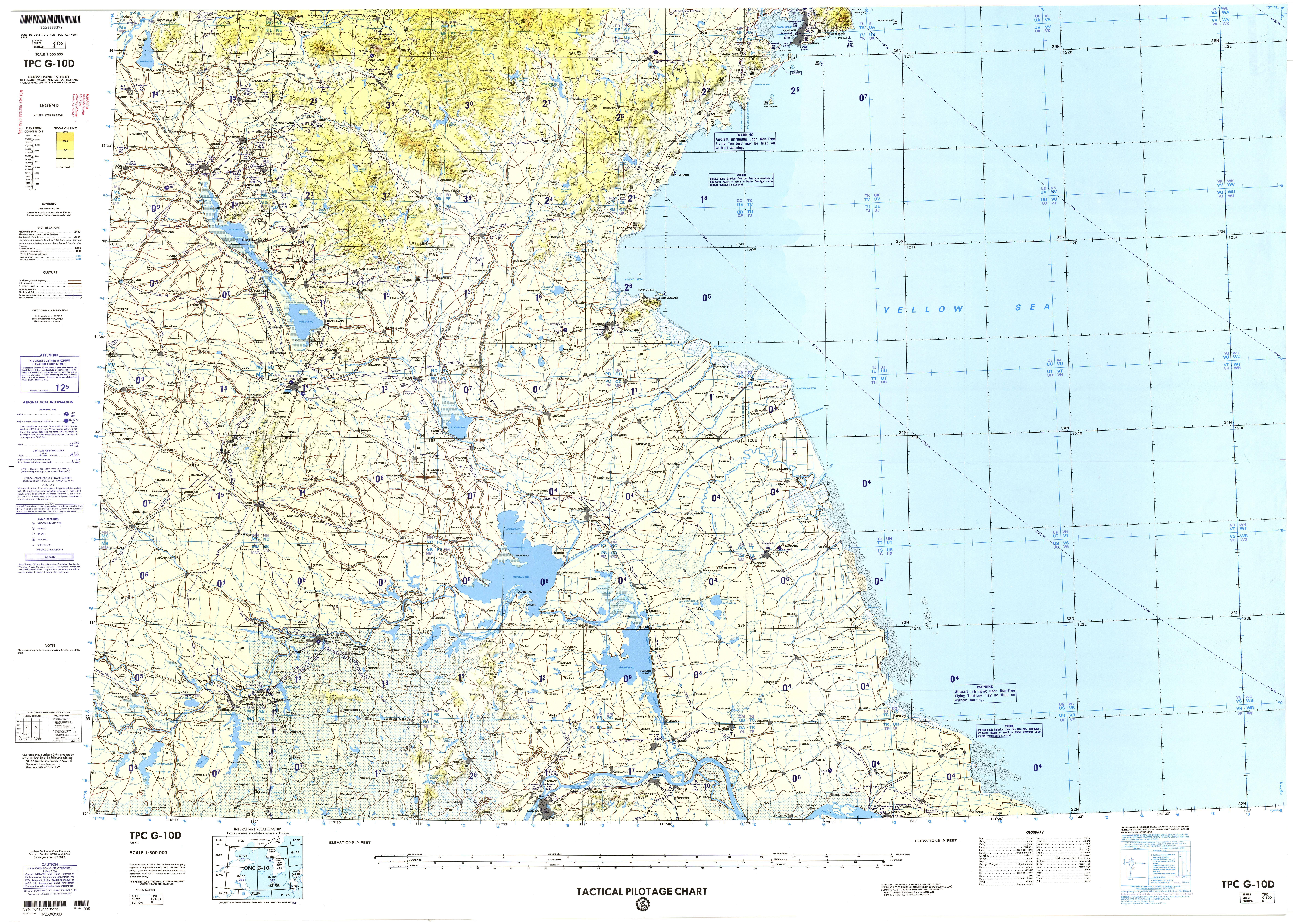 Tactical Pilotage Chart Series - World 1:500,000 Scale